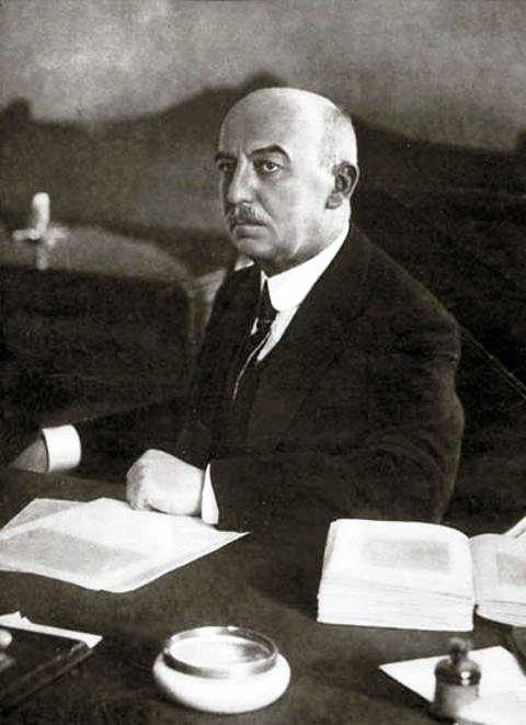 Gabriel Narutowicz (1865-1922), Polish president